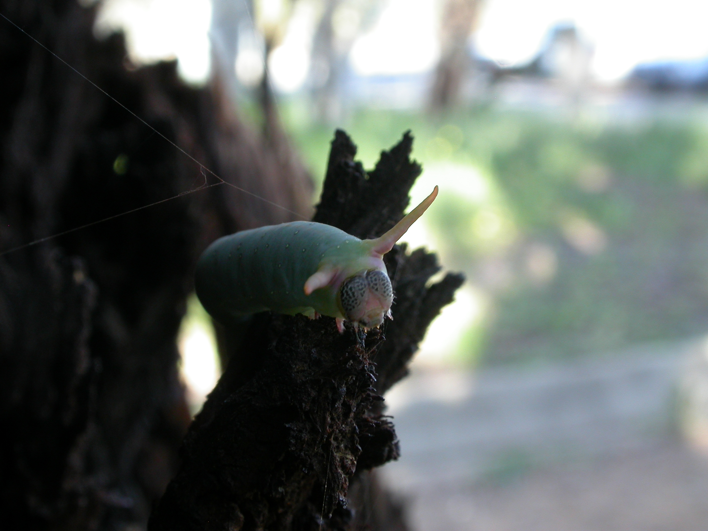 Fisera eribola(Guest, 1887), larva, Black Mountain, Canberra, ACT, 18 October 2010 Identification based on McFarland, Portraits of South Australian Geometrid Moths (pp. 95-98), although "horns" apparently longer on this individual and McFarland only recorded larvae from April to July at Blackwood, SA.